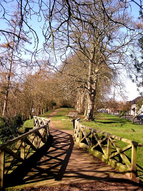 Newnham on Severn. Lovely little park(?) in a corner of Newnham.